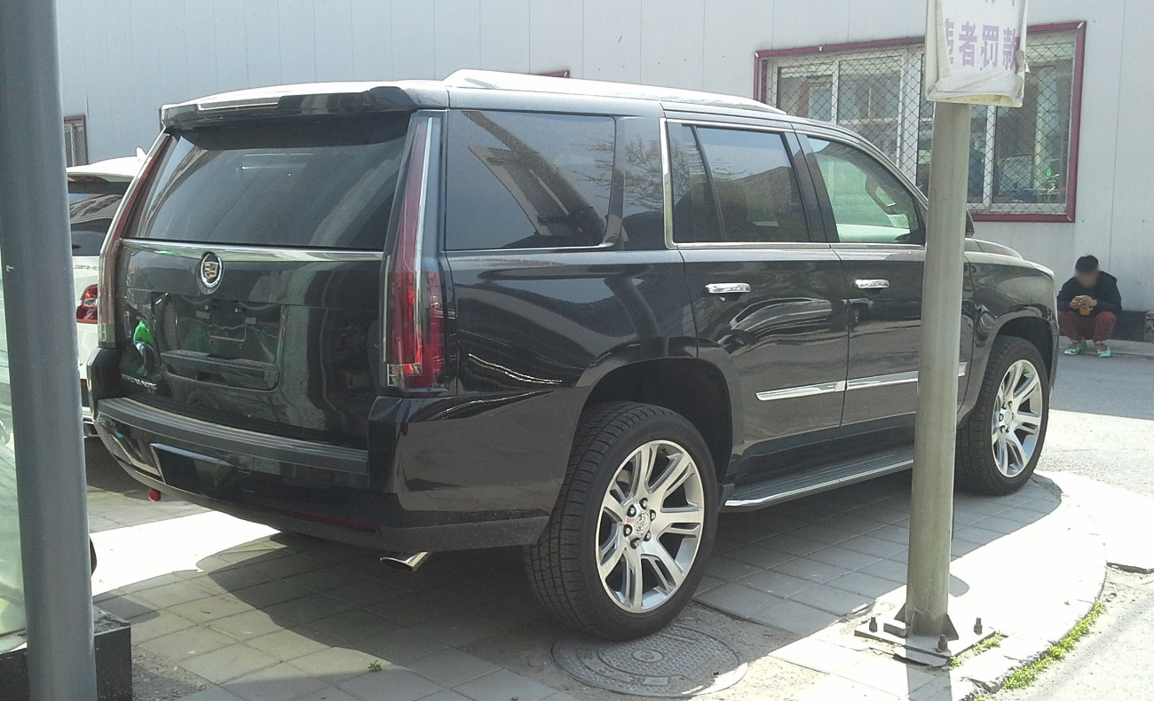 Cadillac Escalade IV photographed in Beijing, China.